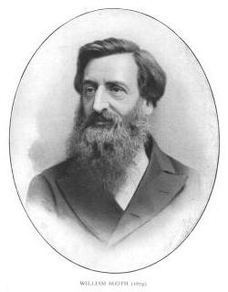 William Booth (1829–1912), founder of Beverley Grimshaw